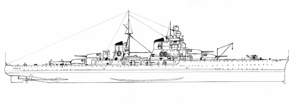 Italian heavy cruiser Pola